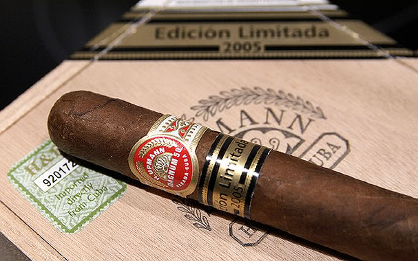 Box of H. Upmann Magnum 50 Edicion Limitada 2005